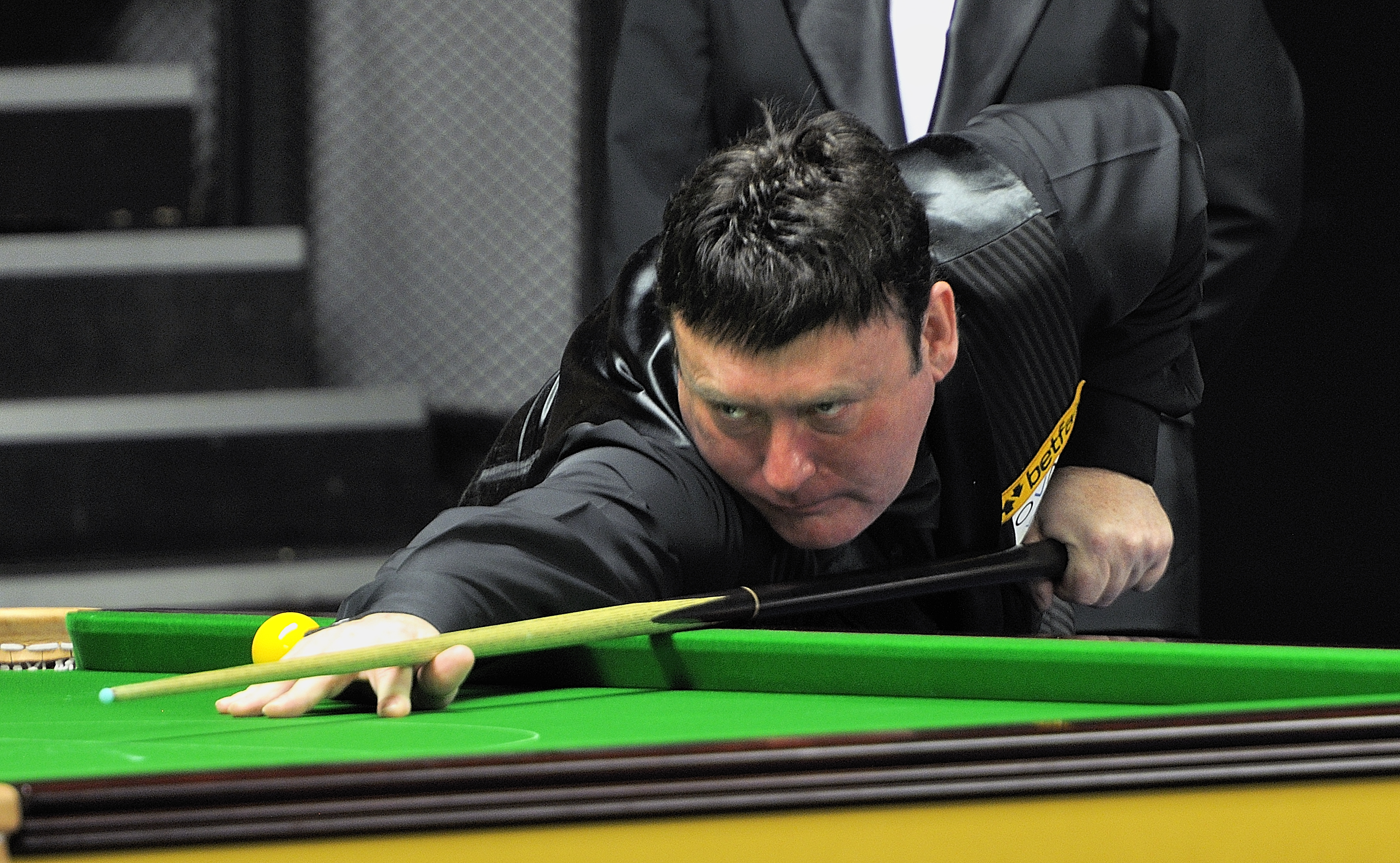 Picture taken in Berlin during the Snooker German Masters in 2013. Jimmy White.